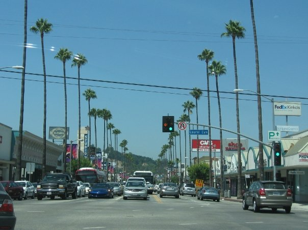 Looking west along Ventura Boulevard, at the intersection with Laurel Canyon Boulevard, in Studio City, Los Angeles, California, USA